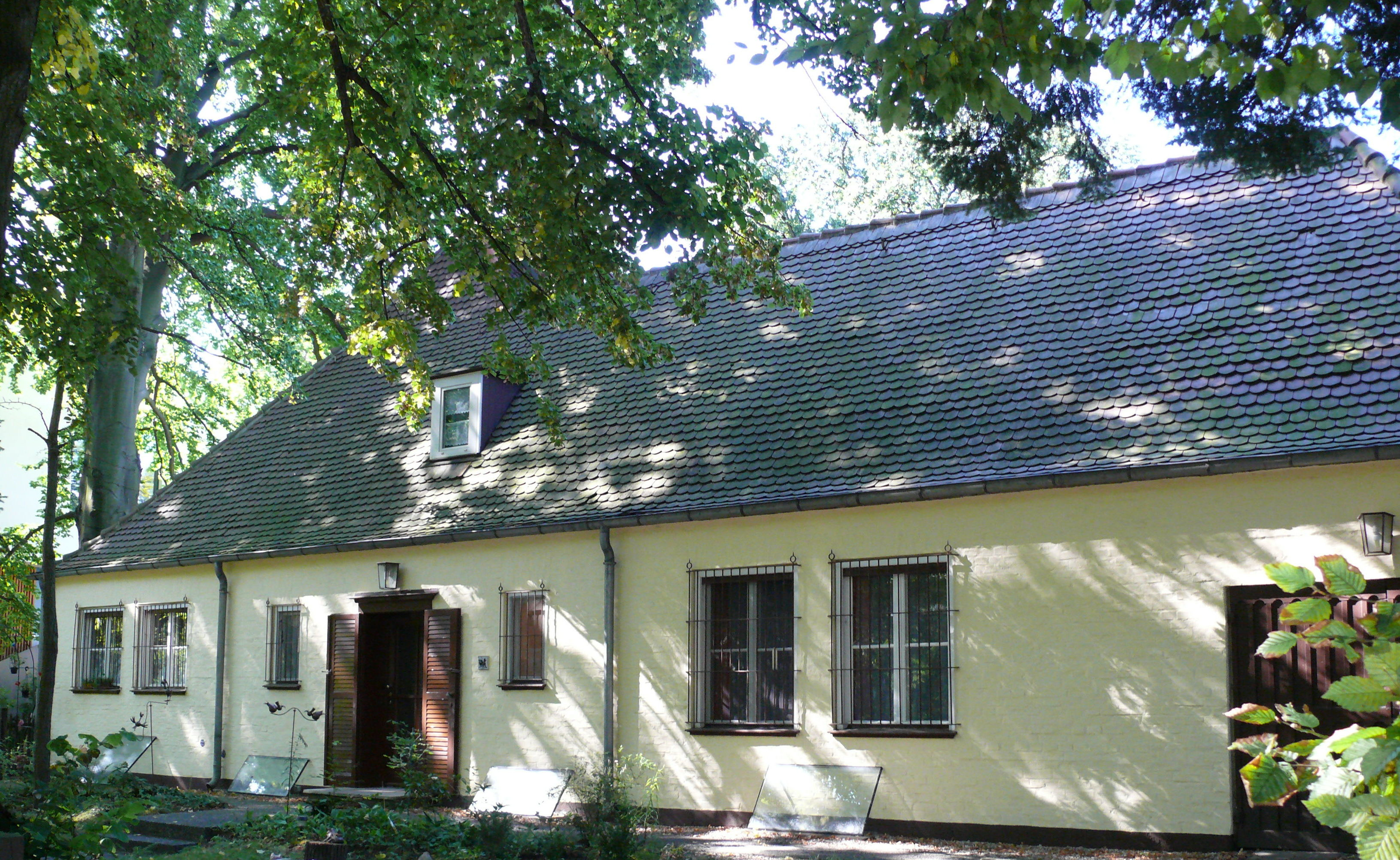 Berlin-Lichterfelde Marienplatz 8